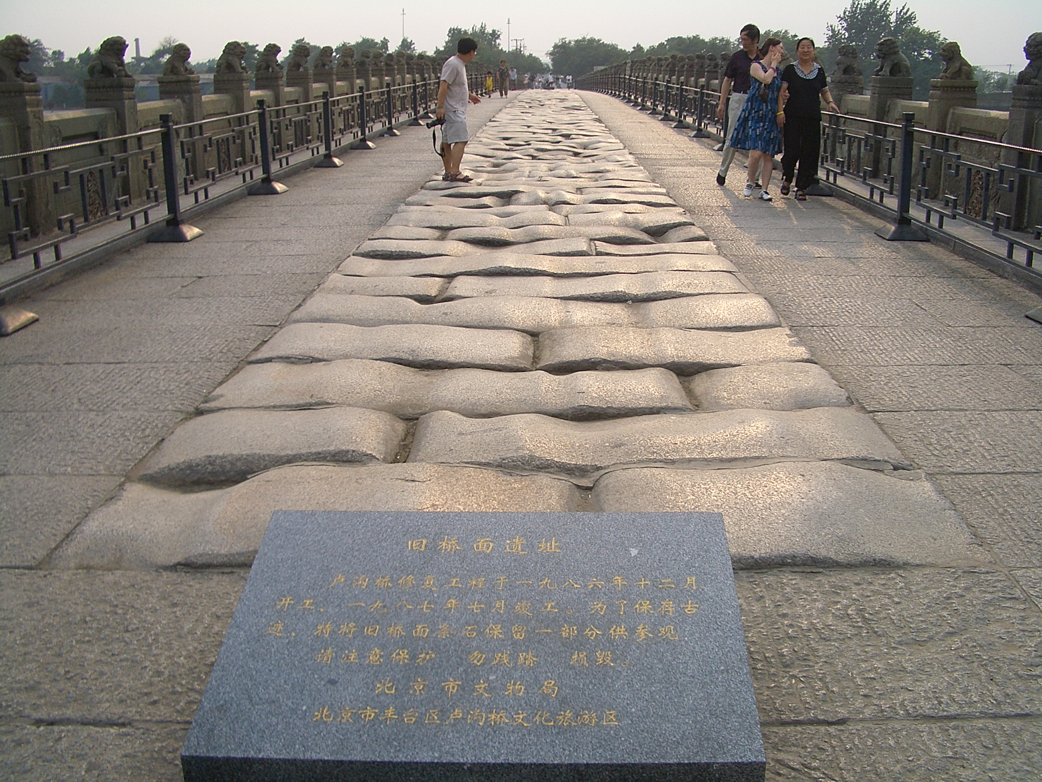 A section of the old cobbled surface of the Lugou Bridge, preserved after the major renovation in the 1990s.